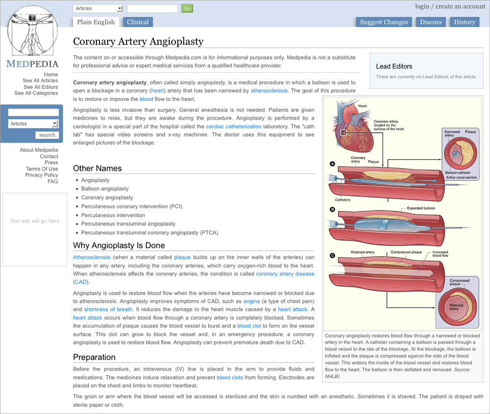 Screenshot of article page of Medpedia, online free encyclopedia about helth and medicine. Contents of Medpedia are licensed under GFDL.